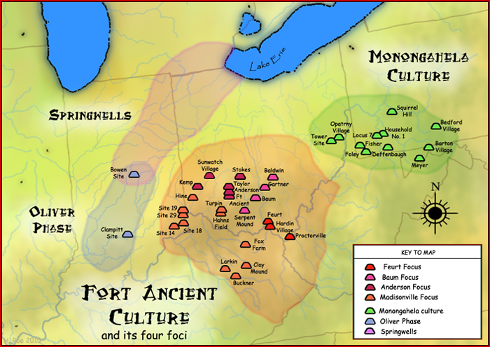 A map showing the Fort Ancient culture, the Monongahela culture and the Oliver Phase, Late Woodland period Protohistoric Native American cultures.